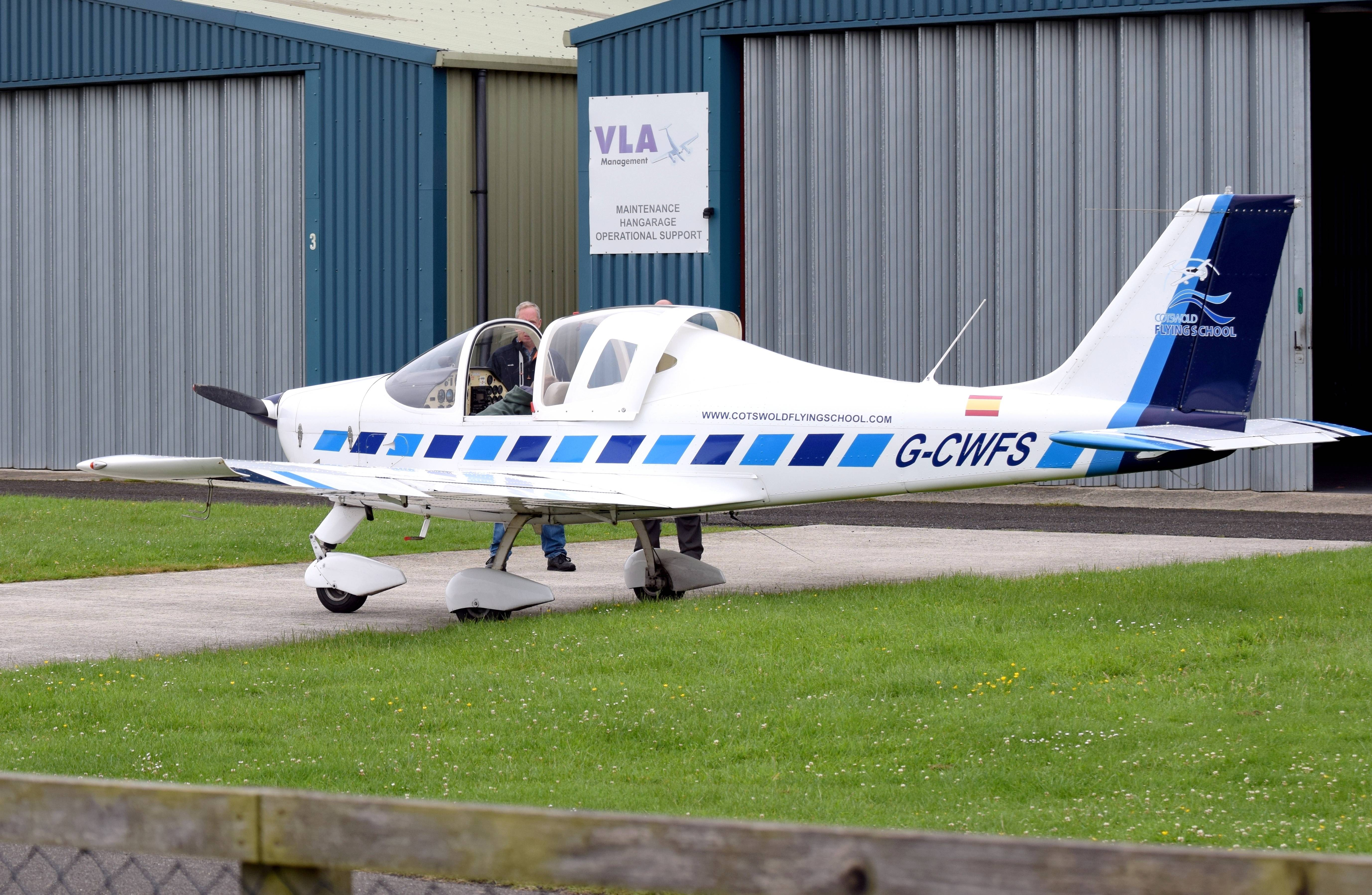 Tecnam Sierra P2002 at Cotswold Airport, Gloucestershire, England. UK registration G-CWFS. Date of build 2007.